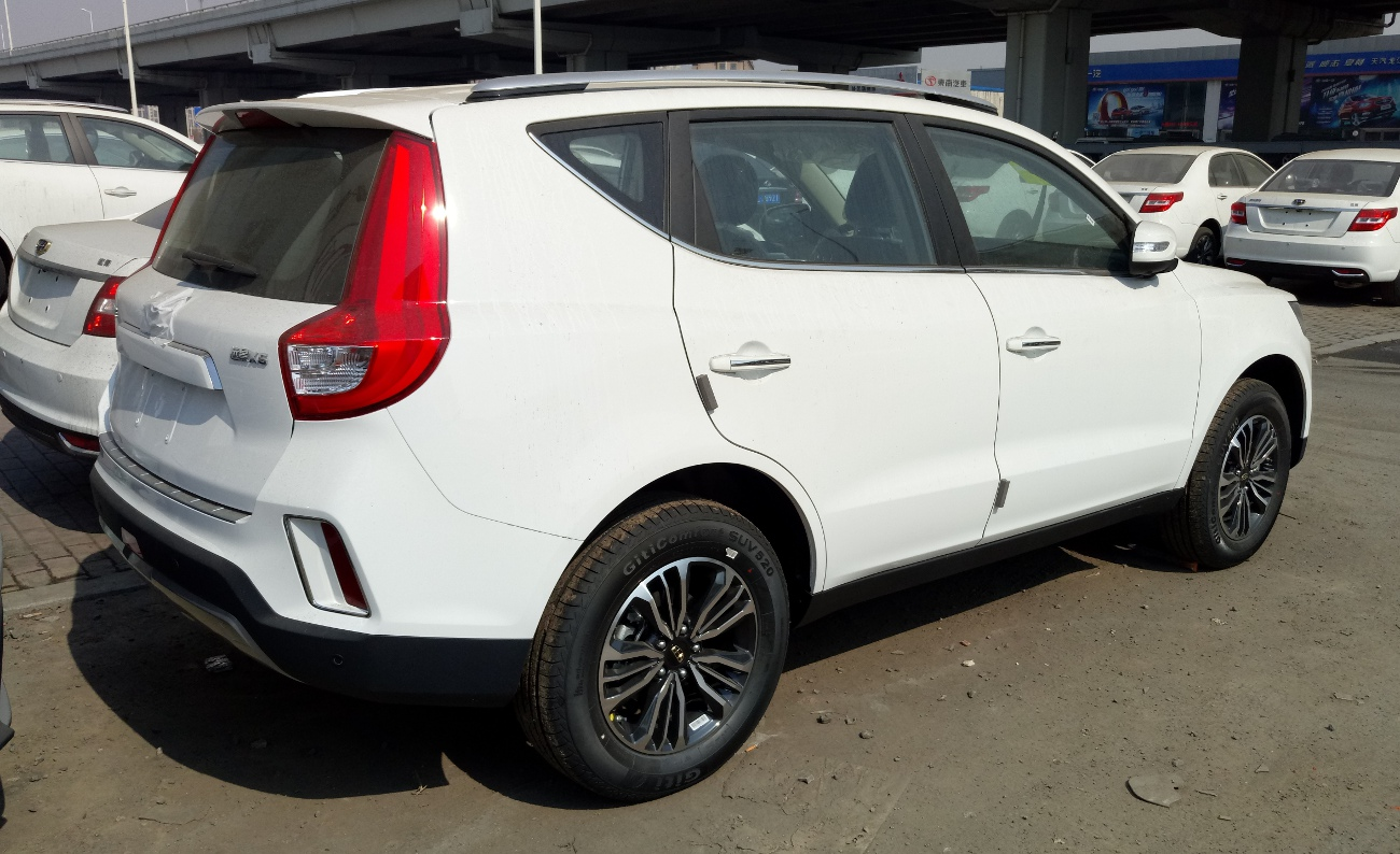 Geely Yuanjing X6 photographed in Harbin, Heilongjiang province, China.